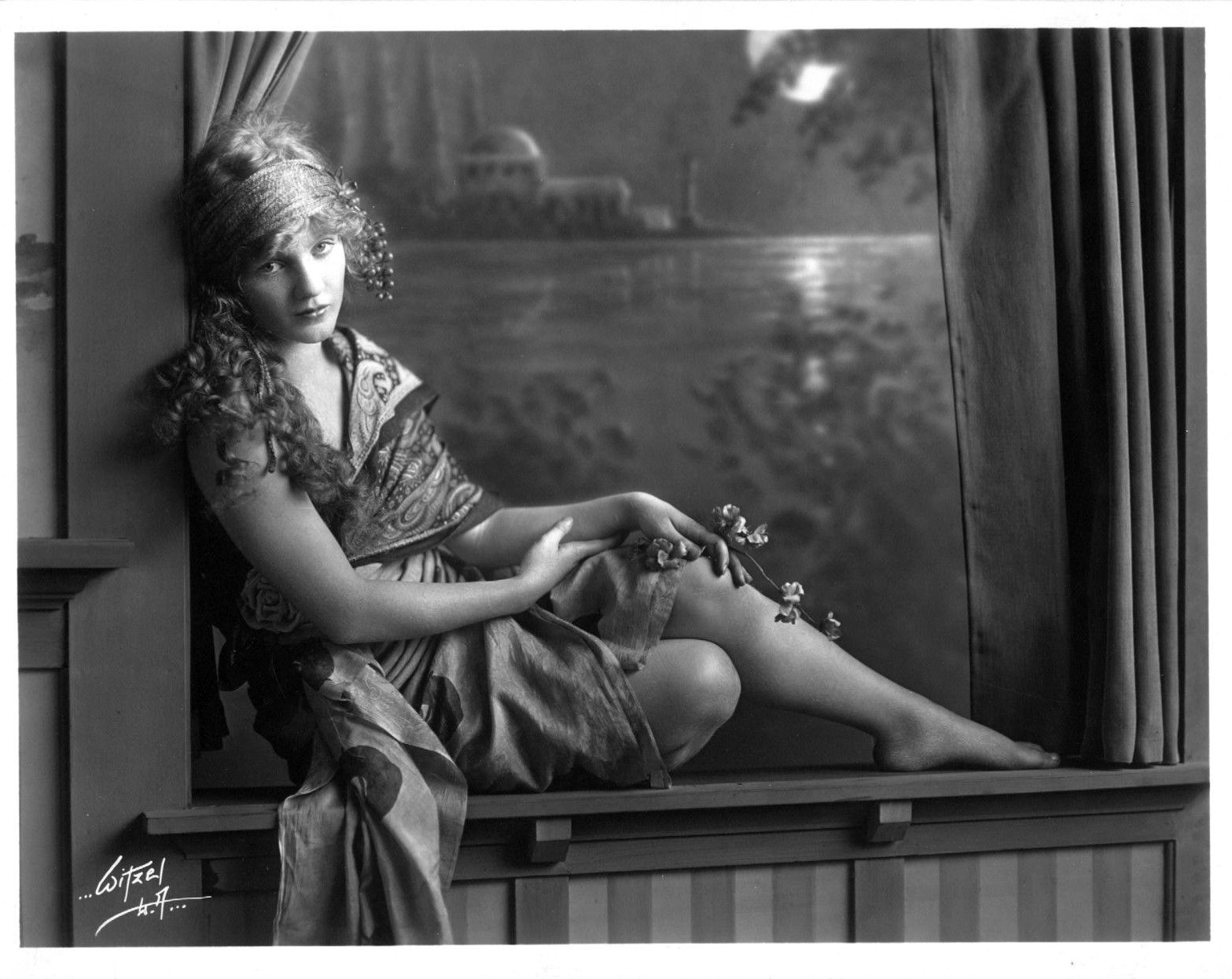 Portrait of American actress Mary Miles Minter (1902-1984) by American photographer Albert Witzel (1879-1929).